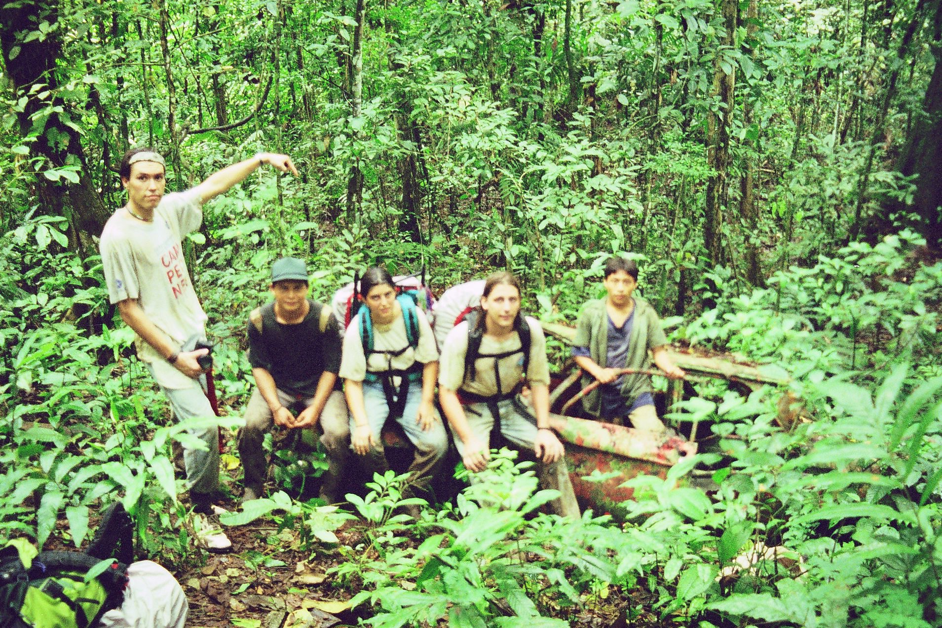 Mexican by-foot expeditioners Ana Cravioto, Walter Bläs, Albi von der Recke and Gustavo Ross with guides Juan and Lico from Paya take a rest at the Corvair abandoned in 1961 by the caravan of three from Chicago.